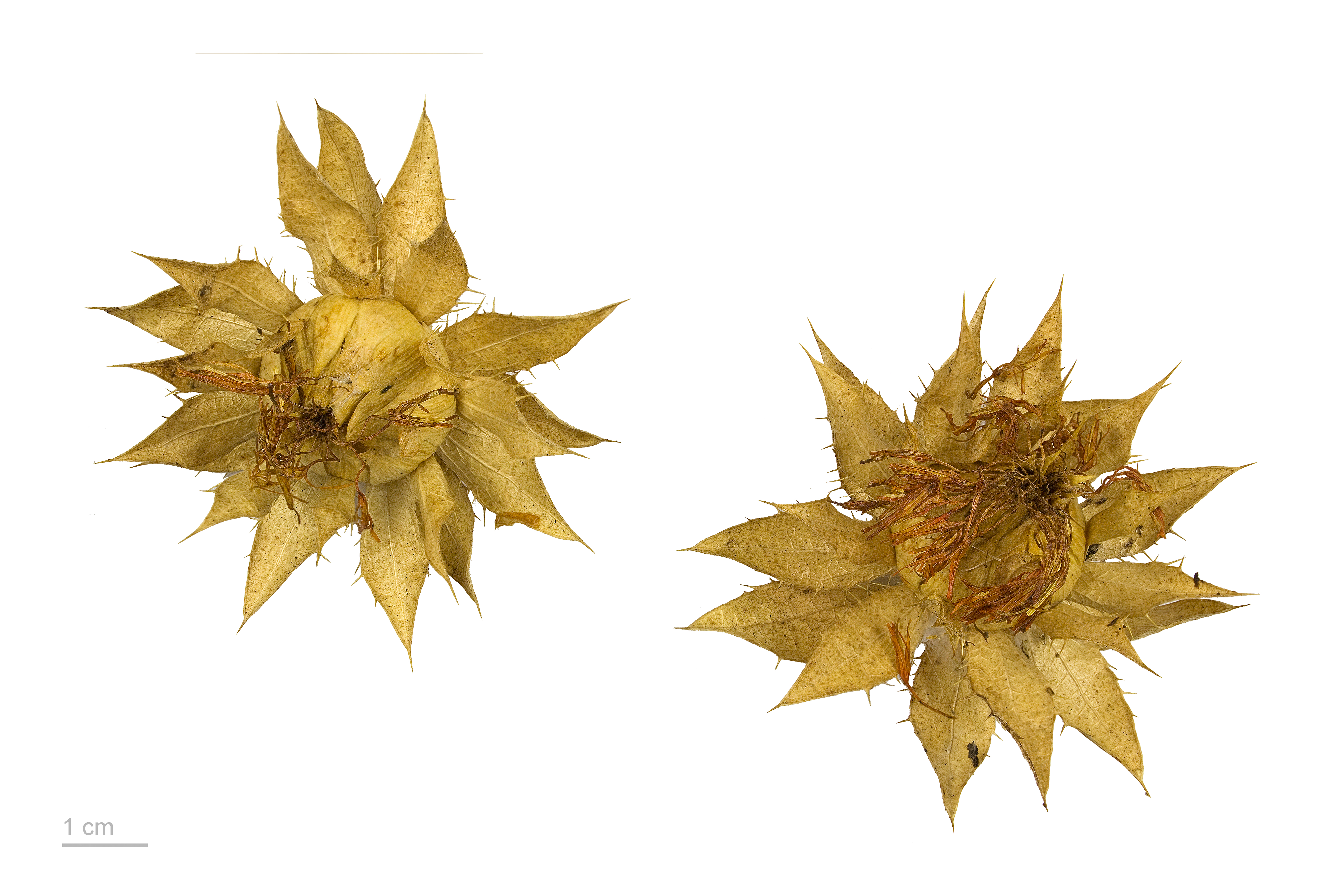 Safflower , fruits and seeds